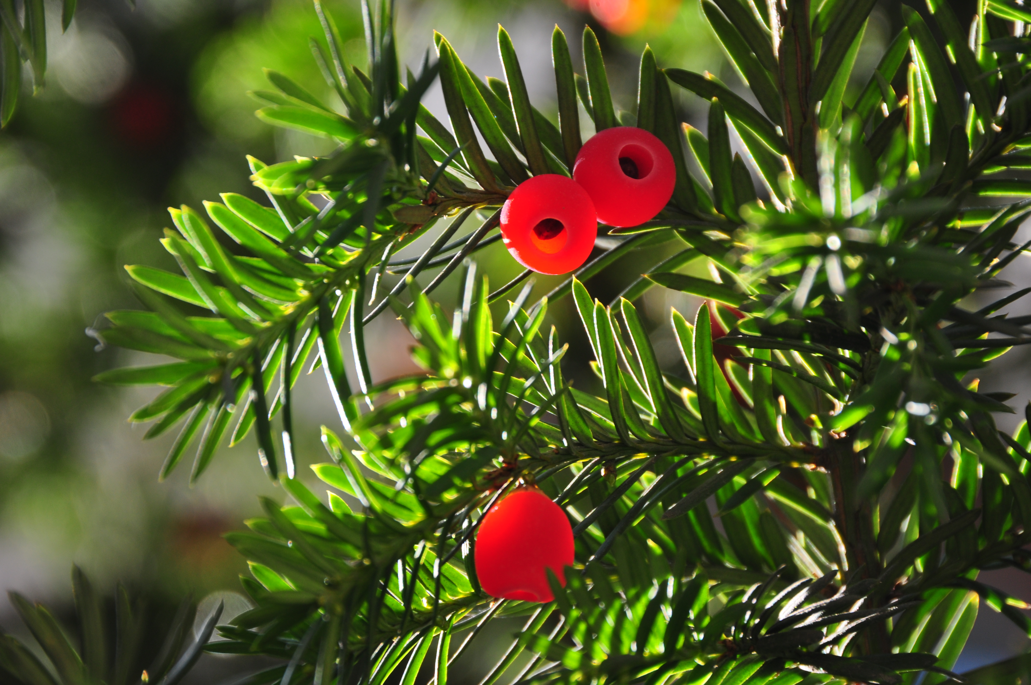 Arils of European yew (Taxus baccata) (Zelena Street in Lviv)